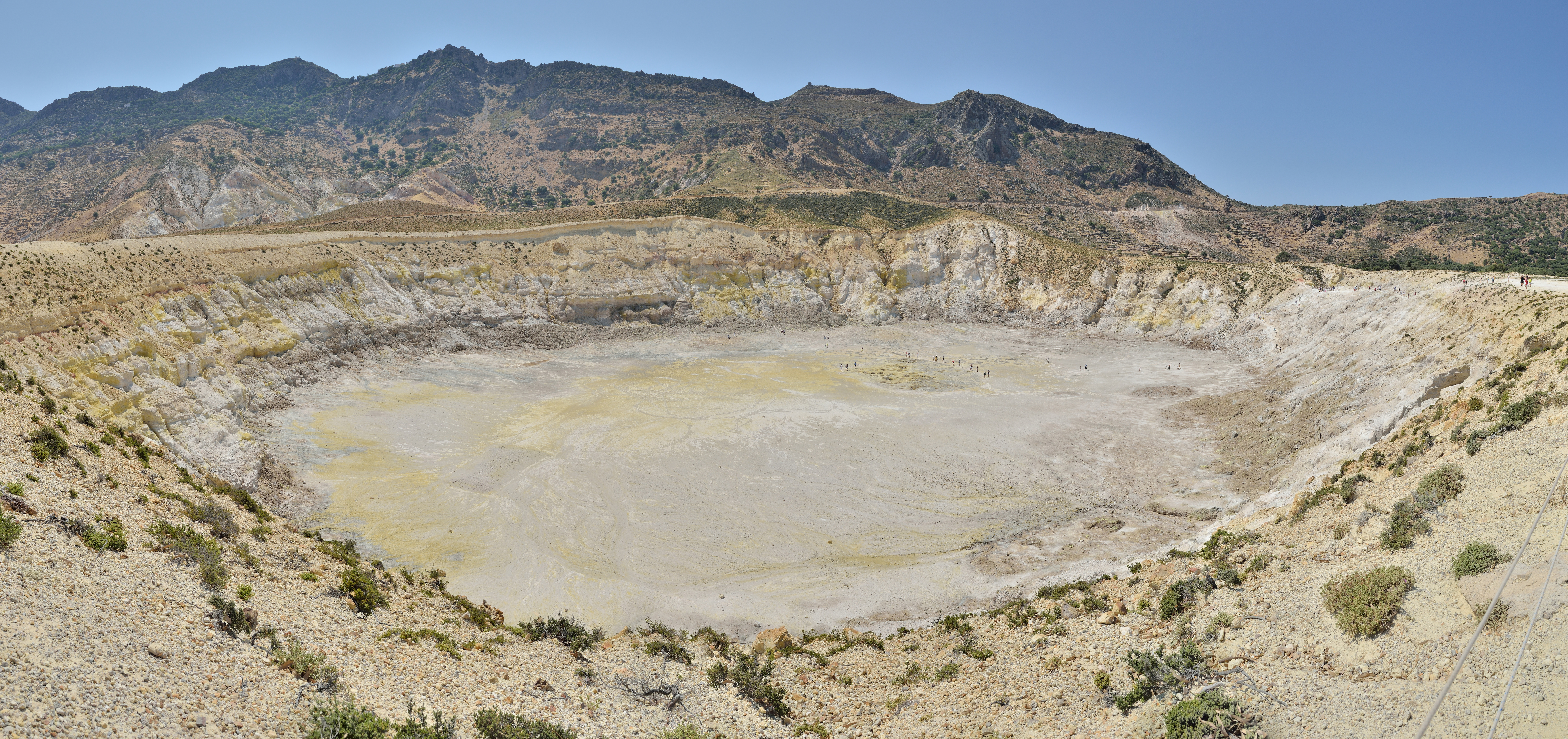 Nisyros: Stefanos Crater